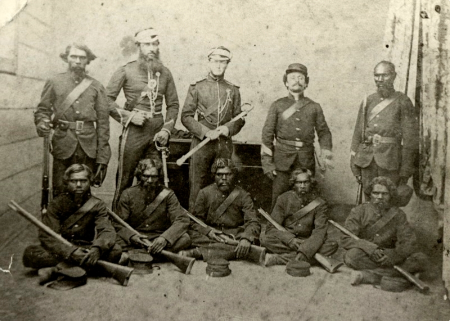 1st Lieutenant George Murray (back row 2nd left) and his detachment of Native Mounted Police taken 1 December 1864 at Rockhampton. George Murray became Brisbane's Chief Police magistrate after his service in the NMP. Back Row: Trooper Carbine, 1st lt George Murray, 2nd Lieutenant unknown, Camp Sgt unknown, Corporal Michael. Front Row: Trooper Barney, Hector, Goondallie, Balantyne and Patrick.